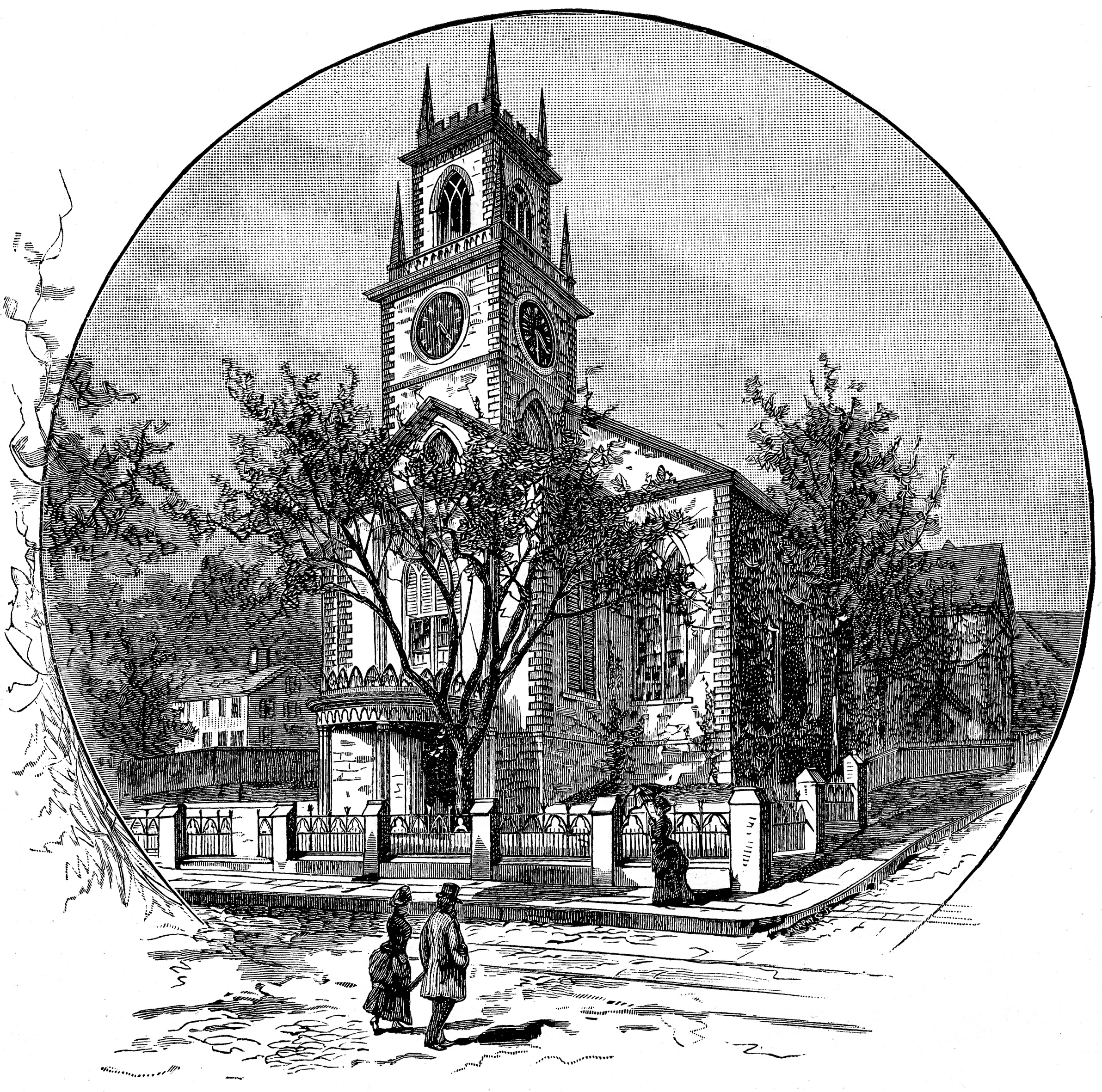 St Johns Episcopal Church, North Main St. Providence, RI. Now known as The Cathedral of St. John. Engraving from The Providence Plantations for 250 Years, Welcome Arnold Greene, 1886. page 147.